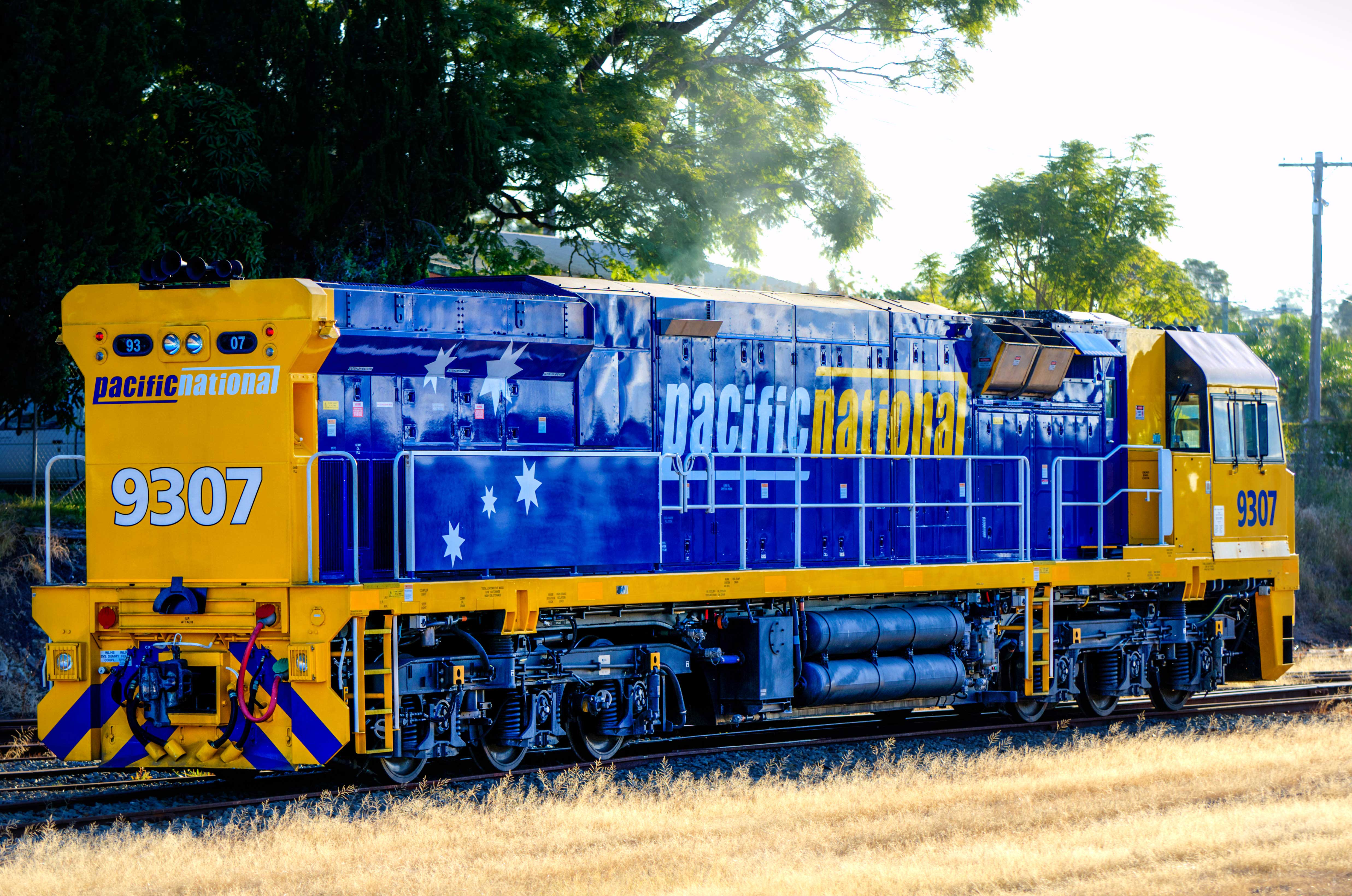 Pacific National 9307 at Taree New South Wales